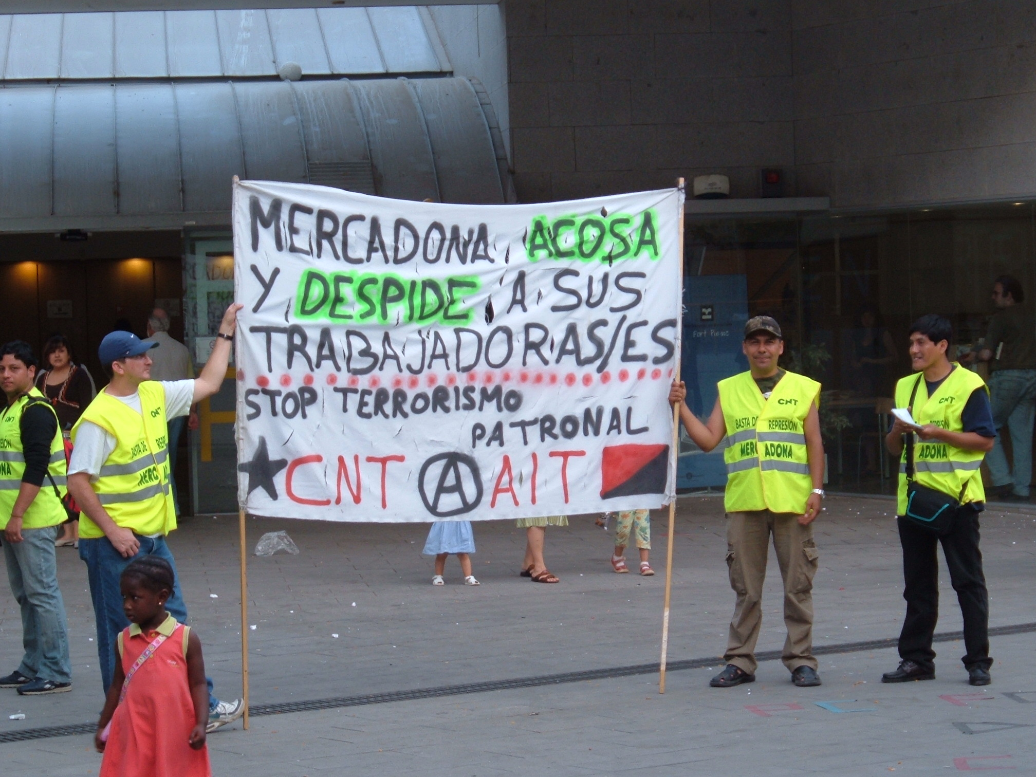 Protest outside a Mercadona store in Barcelona, Spain